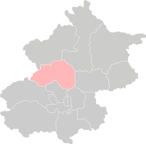 Location map of Changping District in northern Beijing.